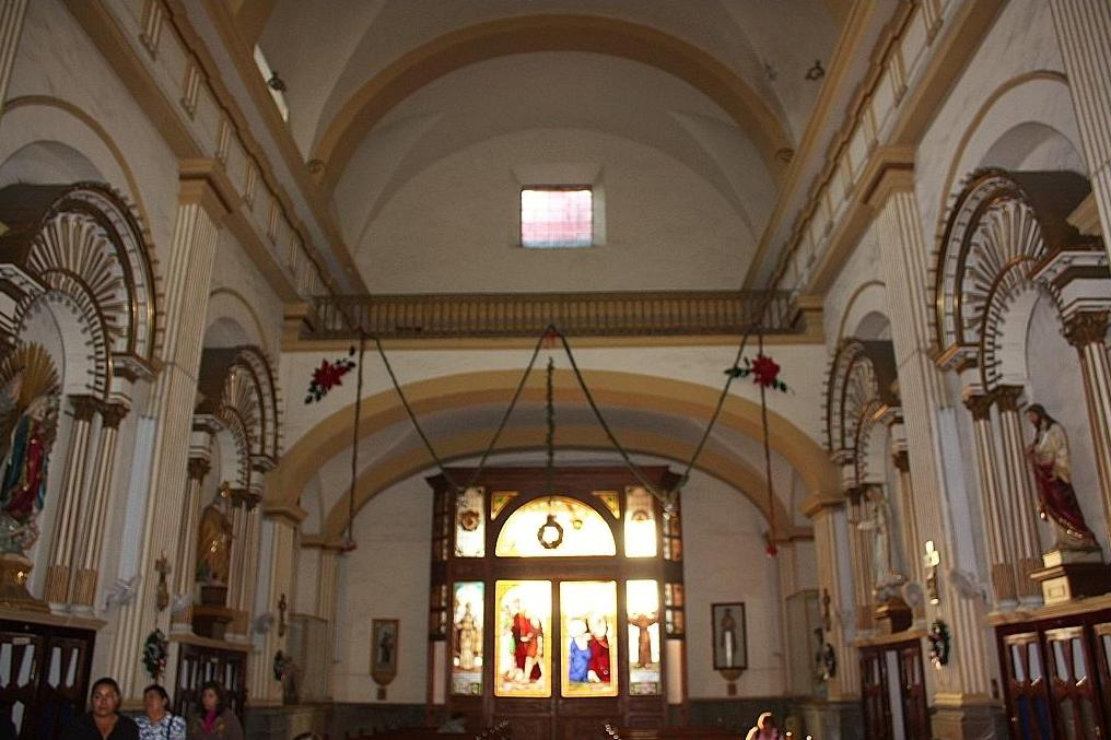 Our Lord of Calvary Church, Orizaba, Veracruz state, Mexico